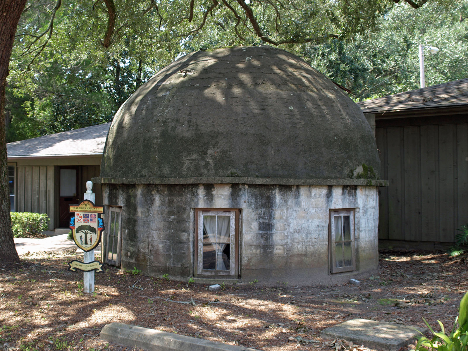 Tolstoy Park (also known as the Henry Stuart House and the Hermit House) in Montrose, Alabama; listed on the National Register of Historic Places